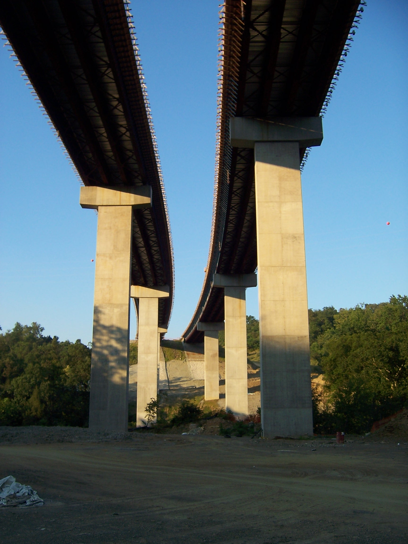 Photo taken by Zachary Ordo.